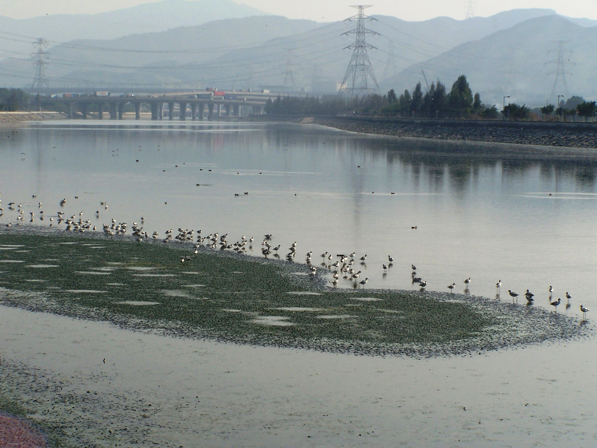 Pied Avocet (Recurvirostra avosetta) winter in Hong Kong